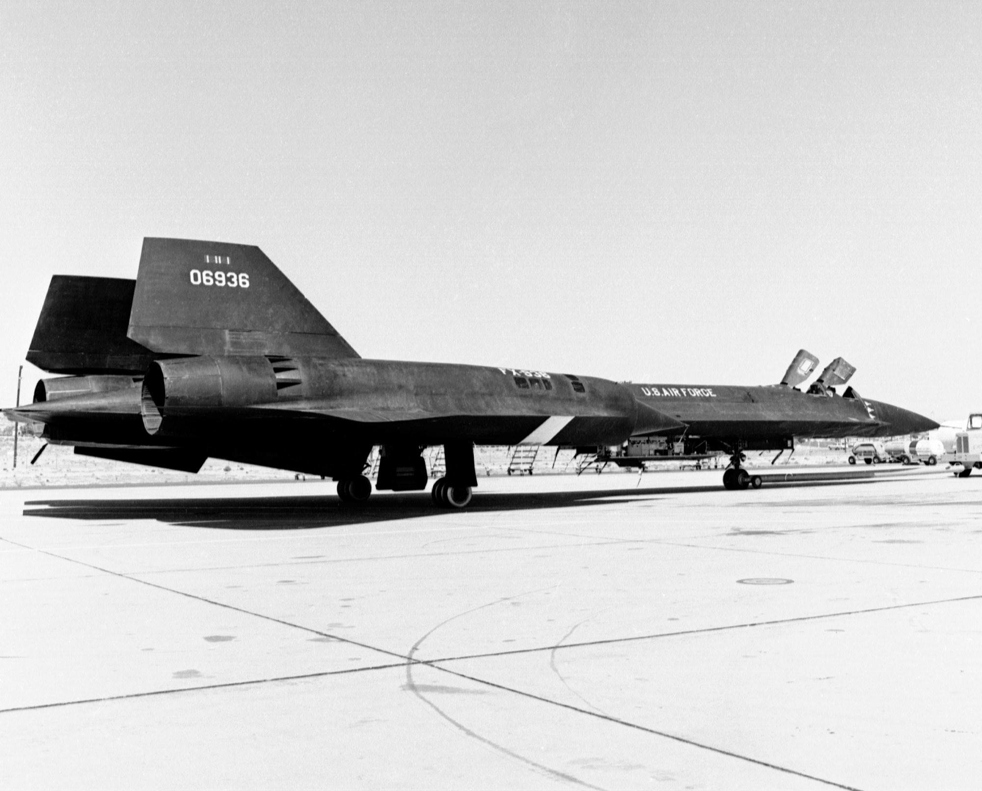 YF-12A #06936 on ramp.